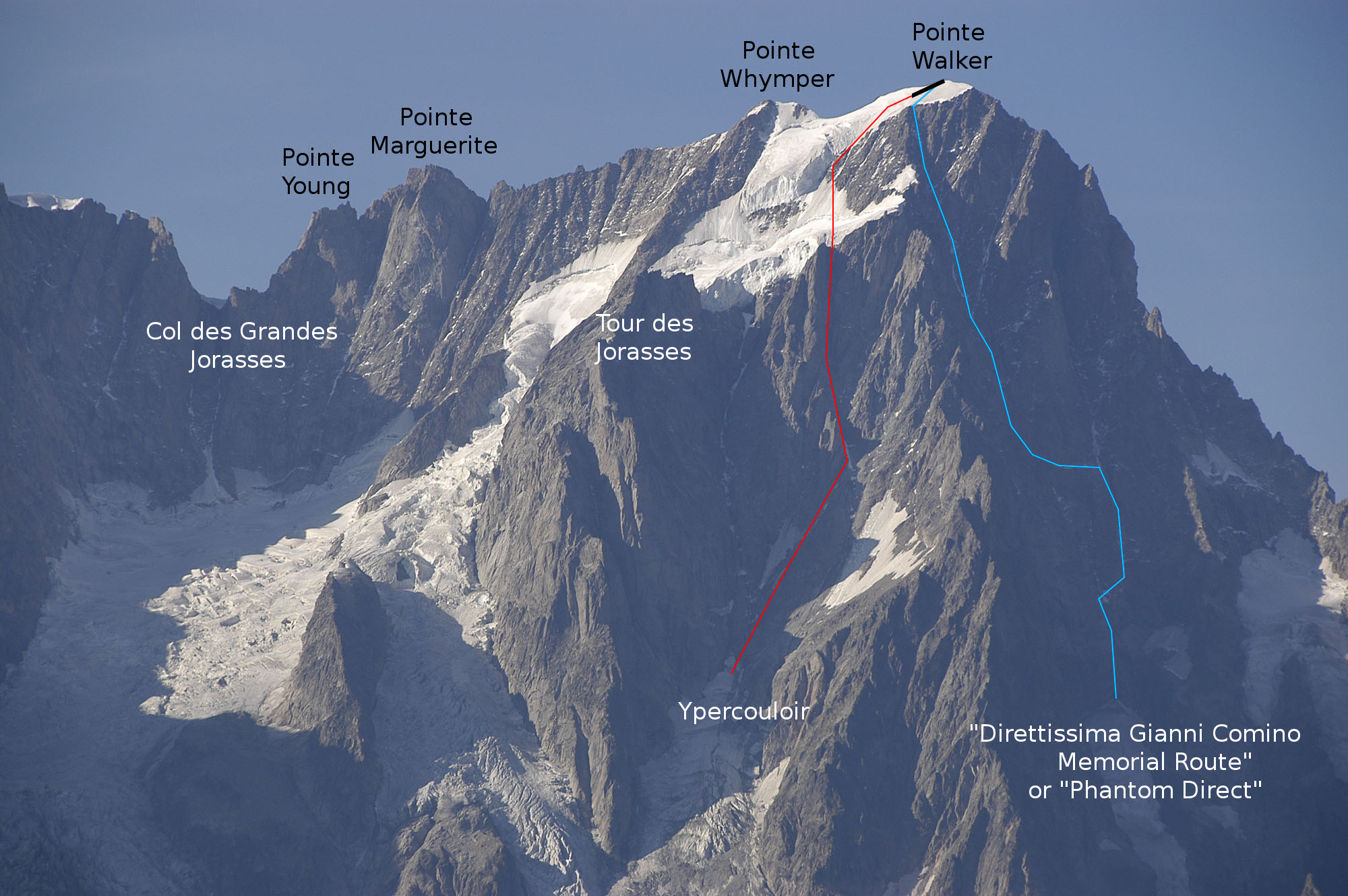 Grandes Jorasses - South face - Routes: Ypercouloir - Gian Carlo Grassi and Gianni Comino, 1978 "Direttissima - Gianni Comino Memorial Route" or "Phantom Direct", Gian Carlo Grassi, Renzo Luzi and Mauro Rossi, 1985